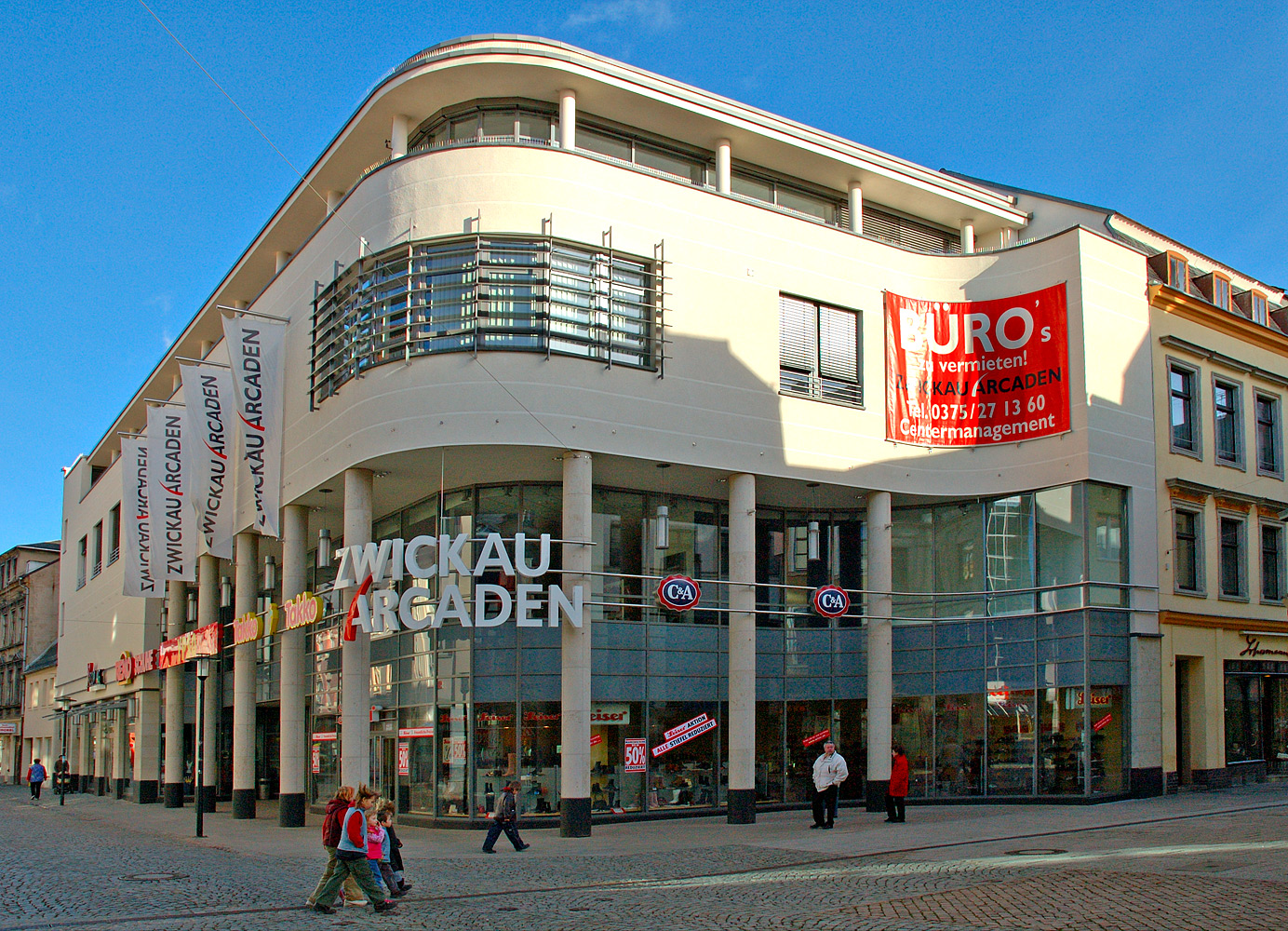 This image shows the shopping mall in Zwickau (Saxony, Germany).